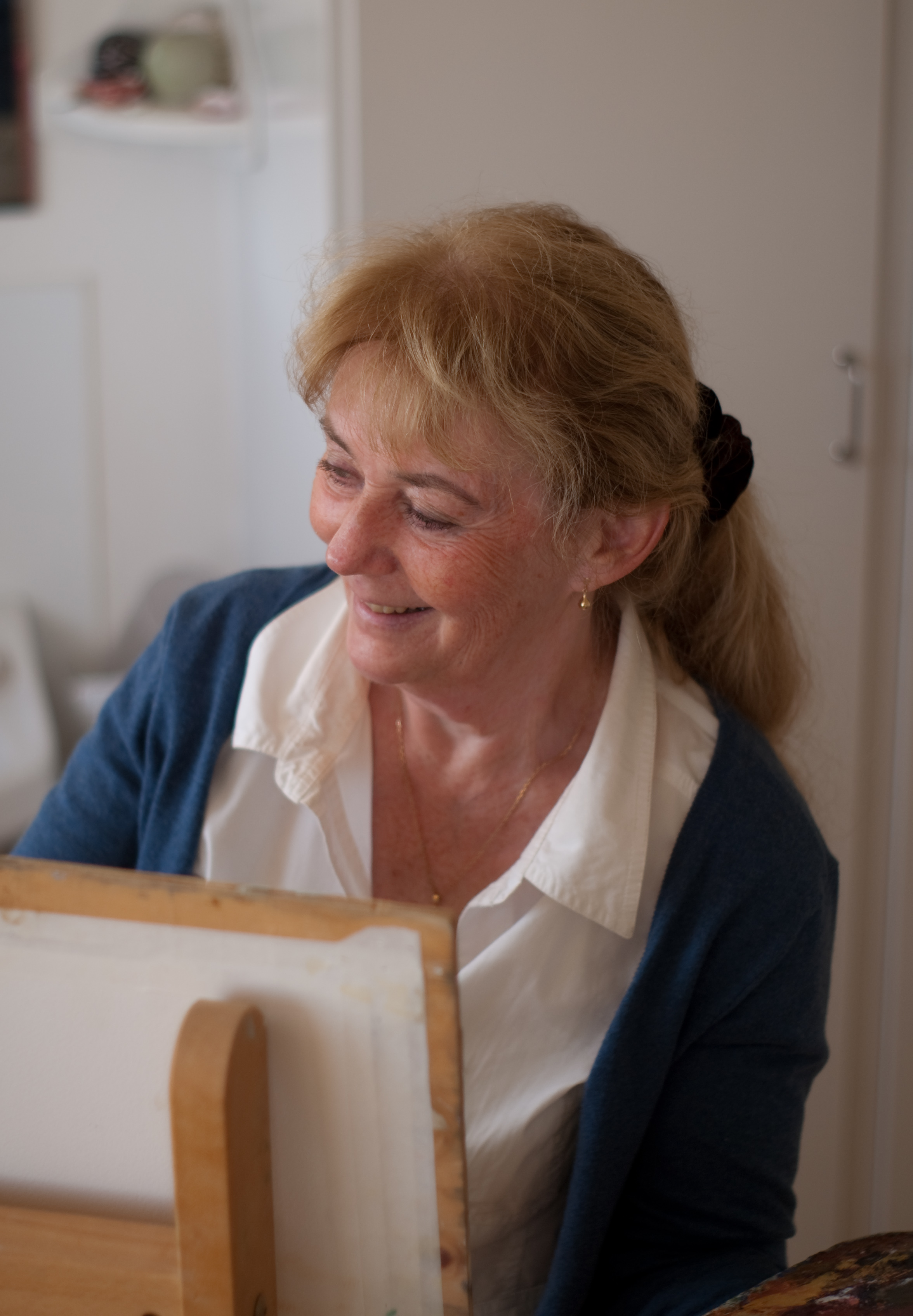 Artist Margareta Blomberg at work in the studio in Gerlesborg, Sweden.